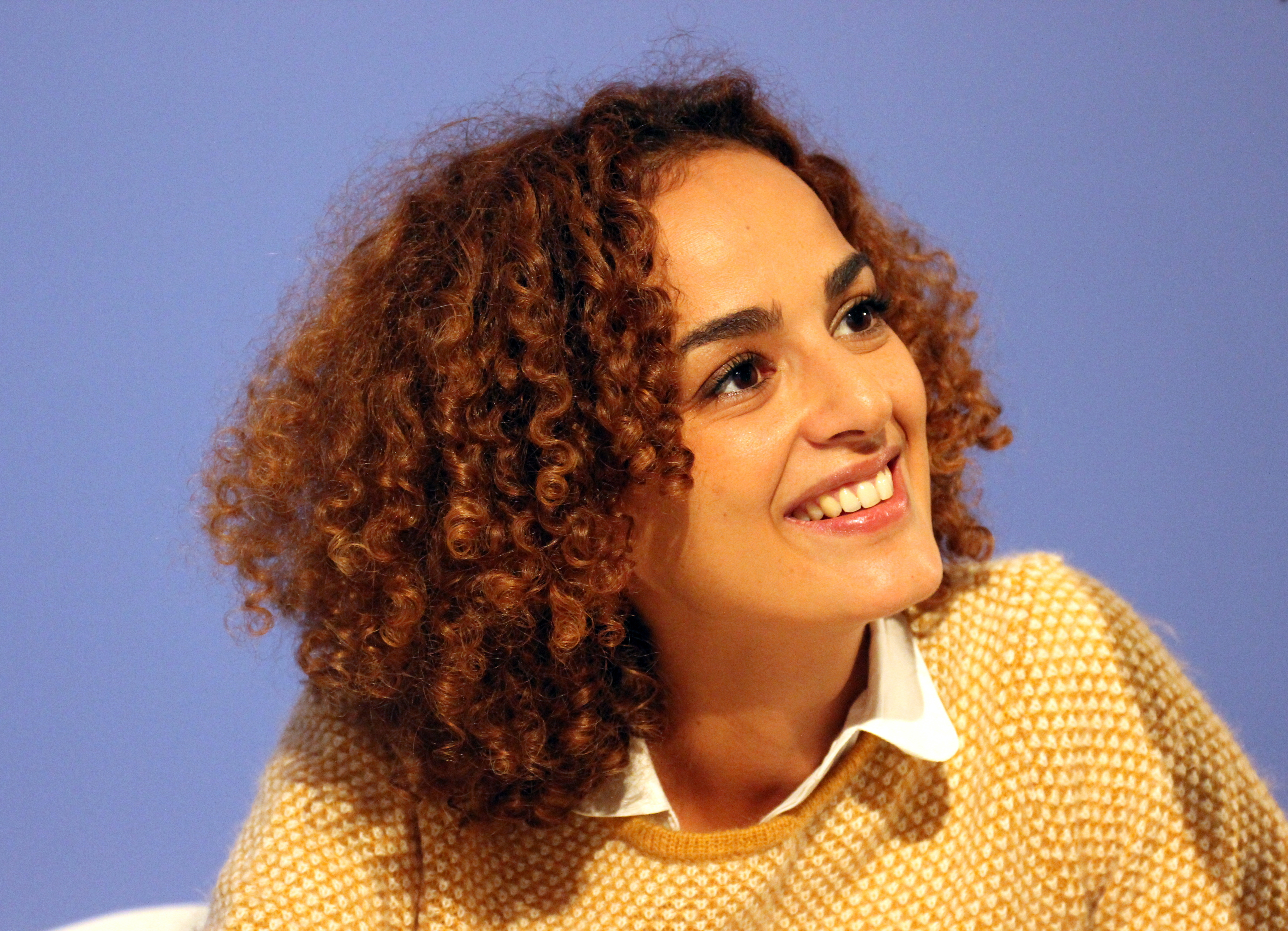 Leïla Slimani, Frankfurt Book Fair 2017